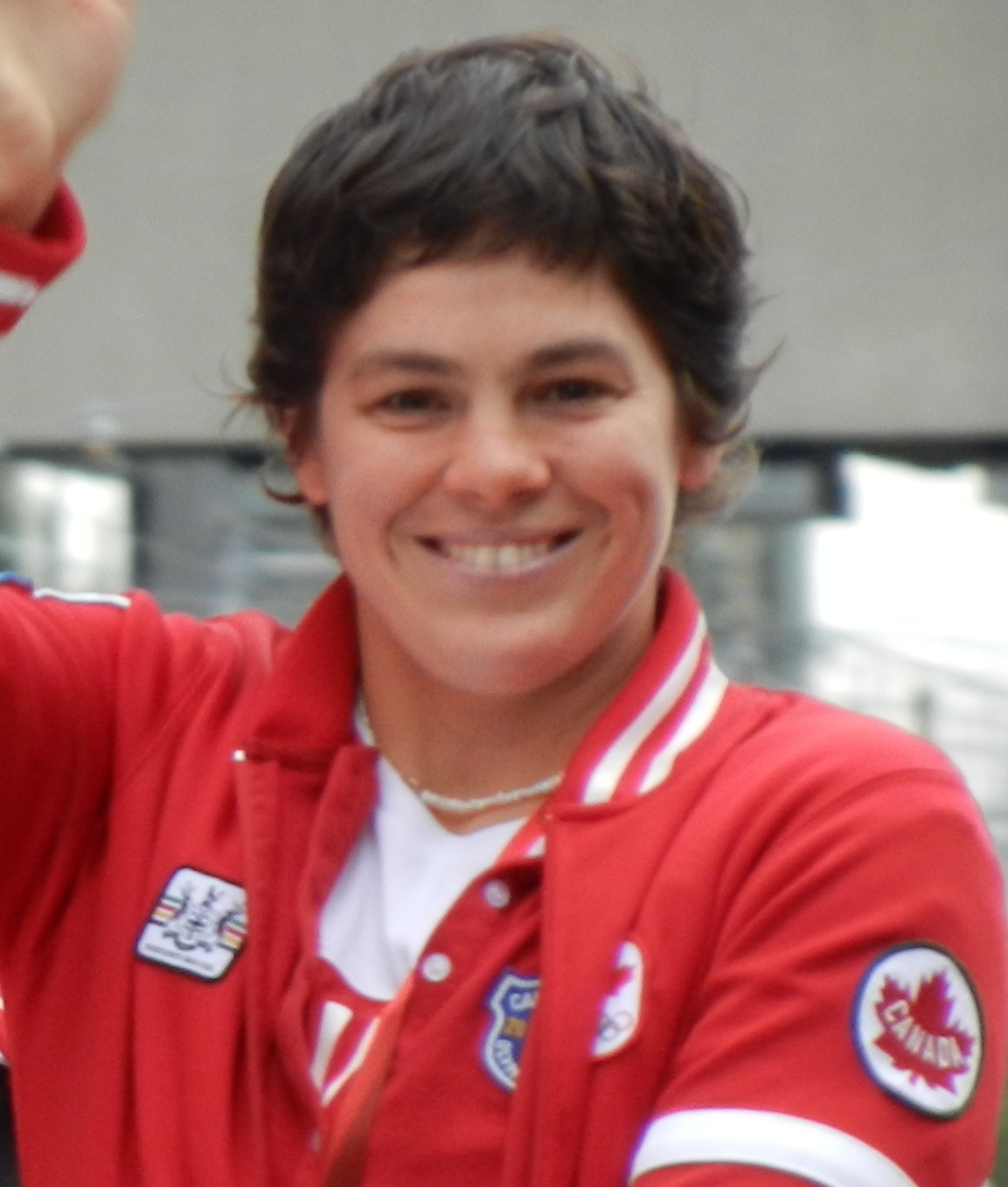 Martine Dugrenier at Olympic Heroes Parade in Toronto (September 2012)